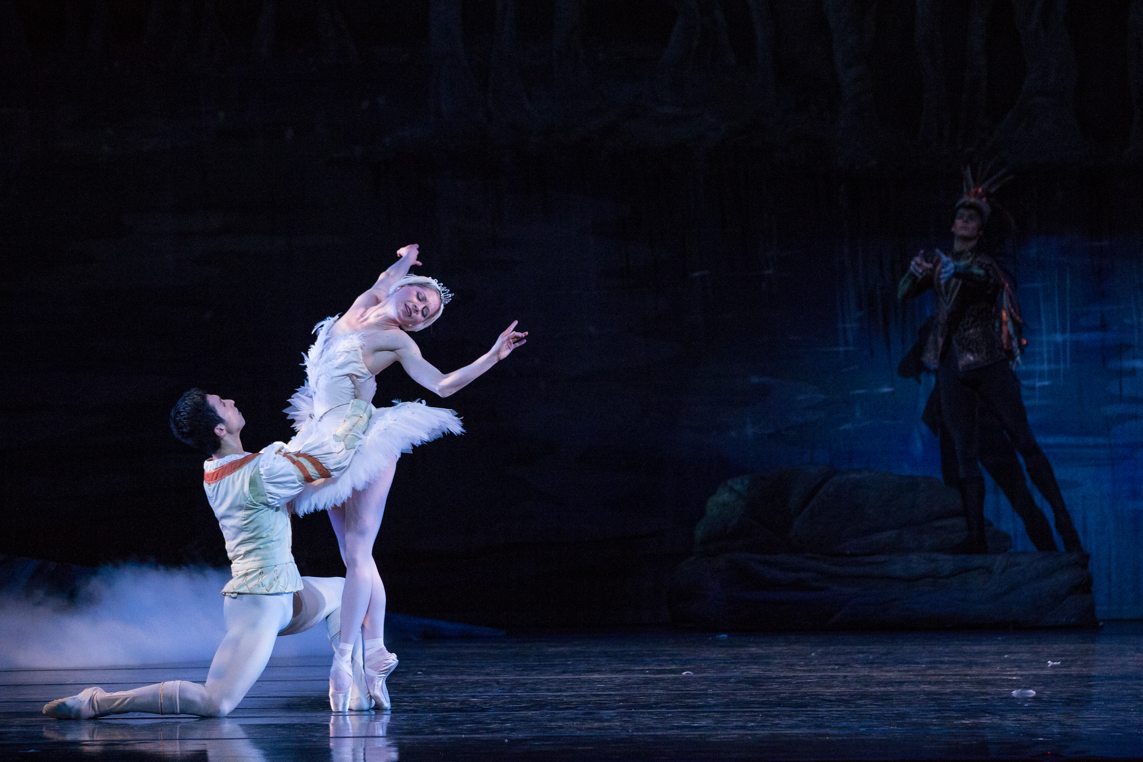 KCB Dancers Molly Wagner and Liang Fu in Swan Lake. Photo by Brett Pruitt & East Market Studios.